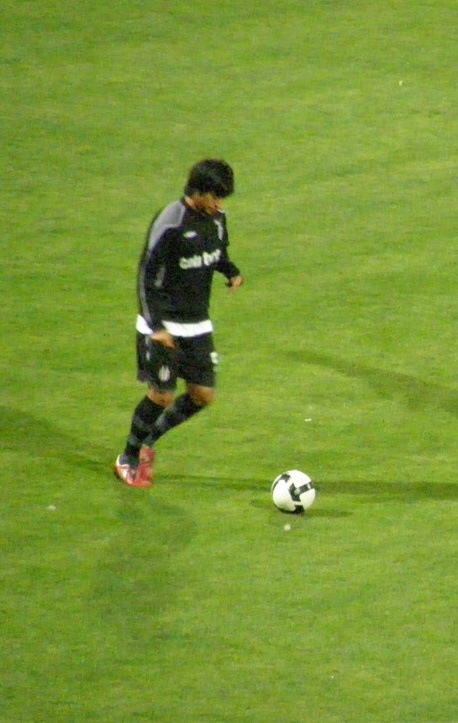 Ibrahim Toraman